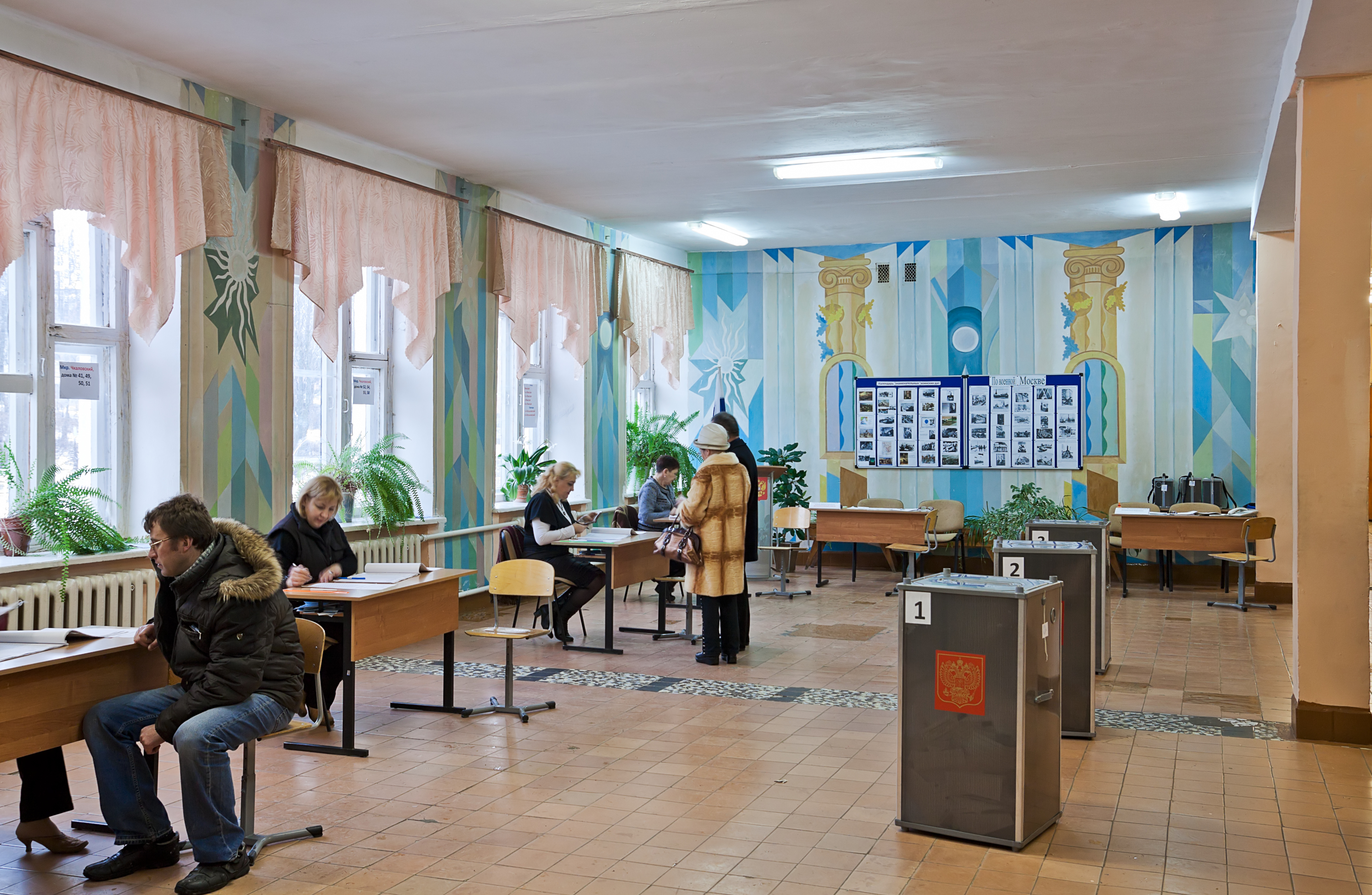 Legislative elections in Pereslavl. Precinct №383. Some people are unsharp because the Election Commission prevented me from making photos of voting people.